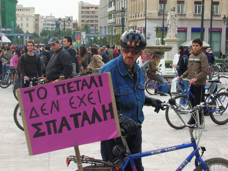 Cyclists protesting in Greece